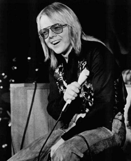 Photo of singer, songwriter and actor Paul Williams.